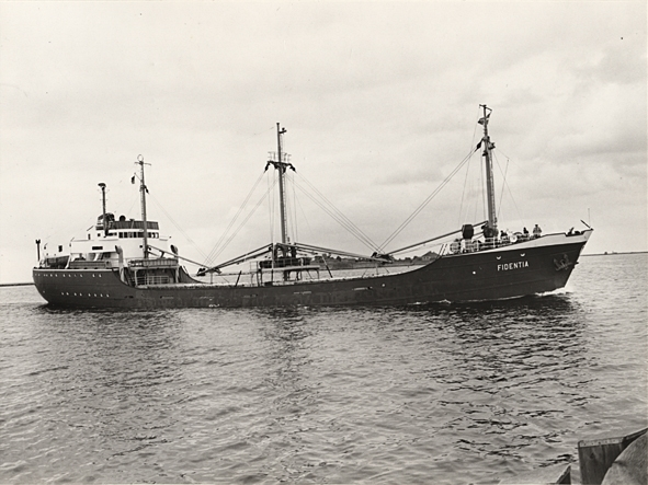 General cargo ship FIDENTIA (IMO 5114583) built at Elsflether Werft, Elsfleth/Germany (yard № 302, launched: 06-09-1955, delivered: 27-10-1955), later names: 1965 REGNITZ, 1971 THEOSKEPASTI, 1984 GEORGIA, 1985 ROULE, sunk by Israeli artillery fire at Sidon 23-07-1985; collection J. Robert Boman (1926 - 2002) owned by Sjöhistoriska museet.